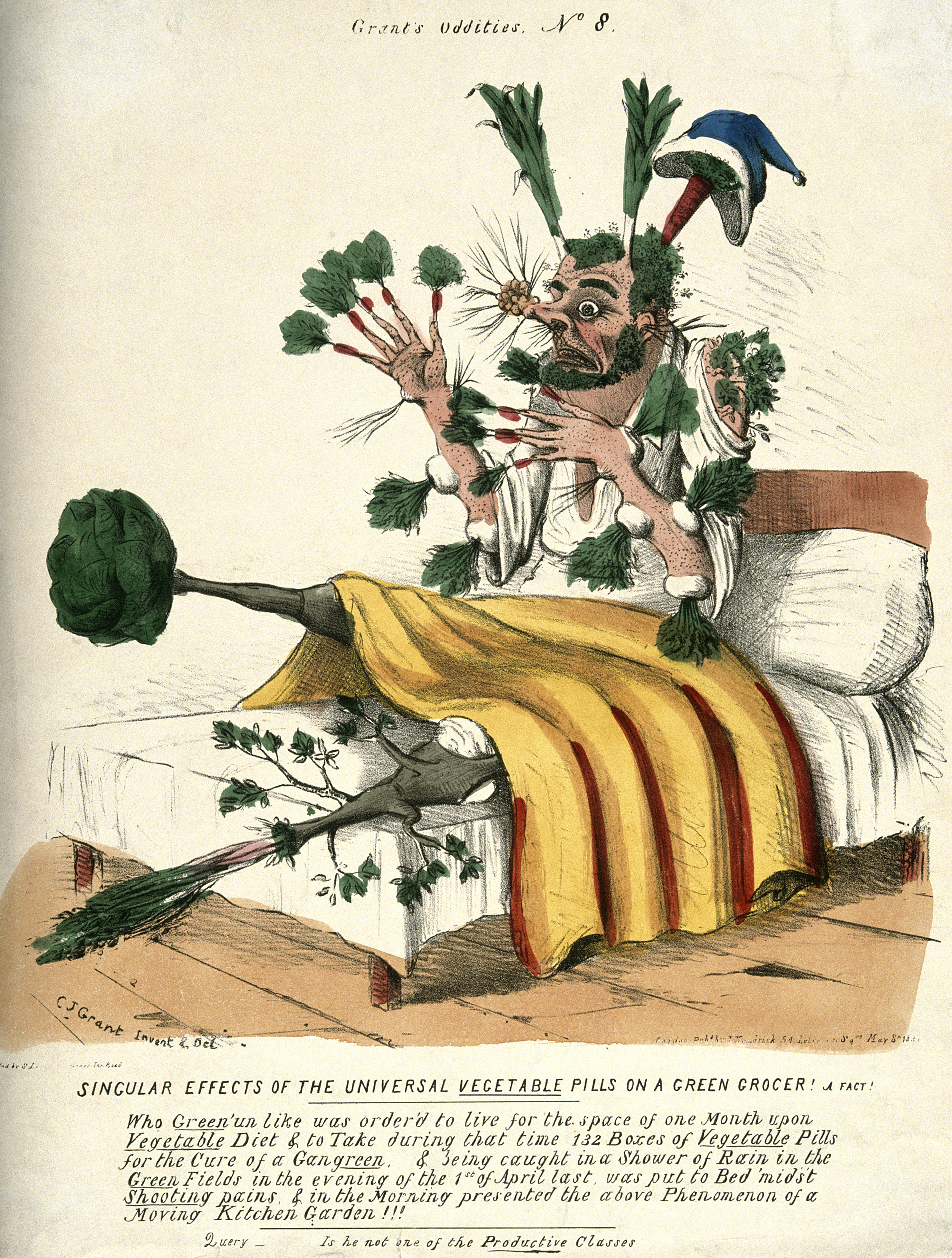 Topic-LCSH: Vegetables. Tablets (Medicine) Alternative medicine. Beds. Genre/Technique: Caricatures. Lithographs.